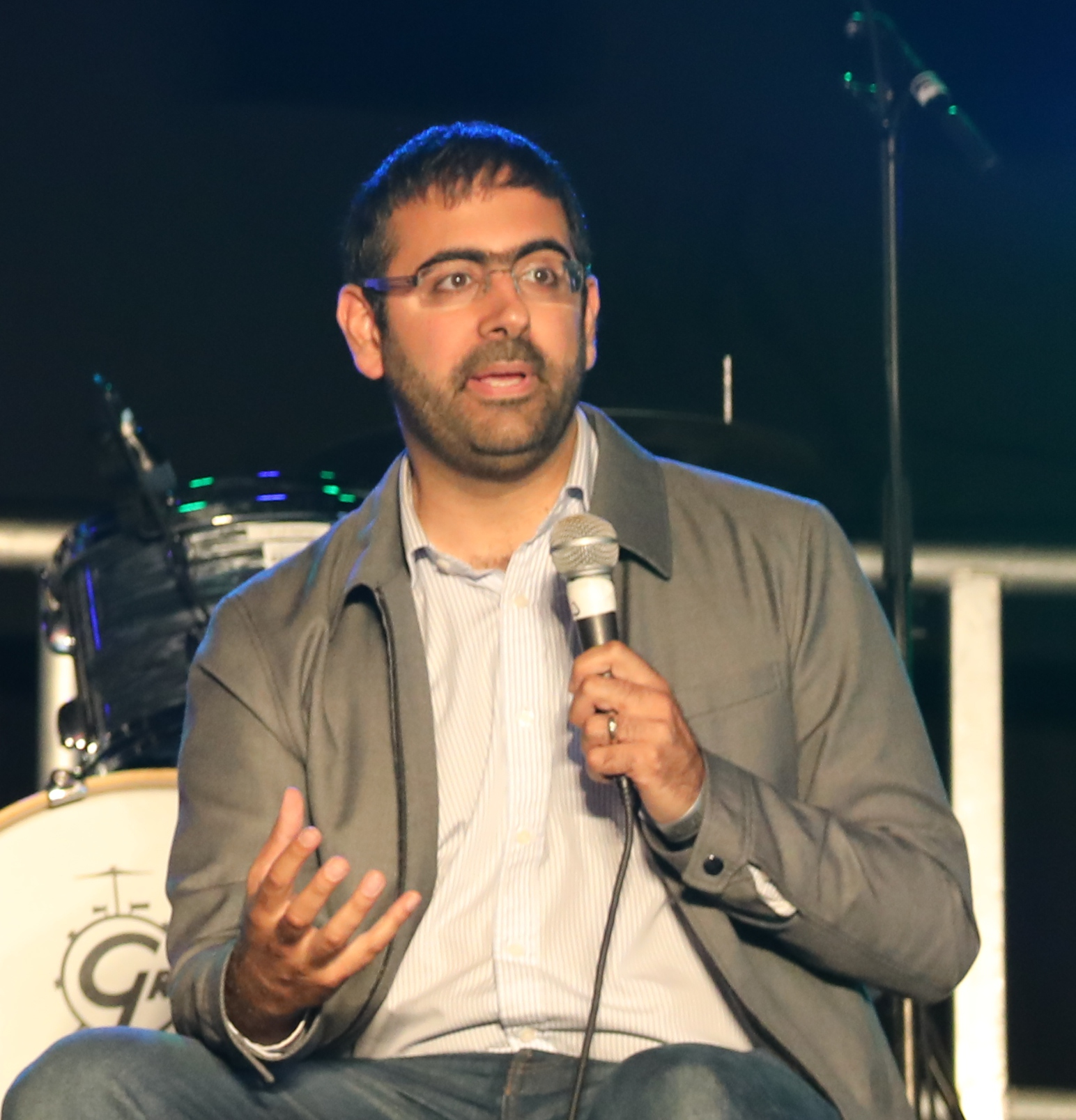 Photo of Miqdaad Versi speaking on the "The media model is bust" panel at Byline Festival